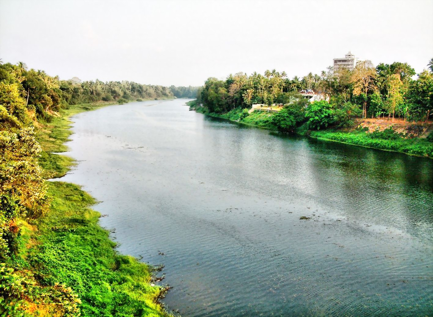 Chalakudy river